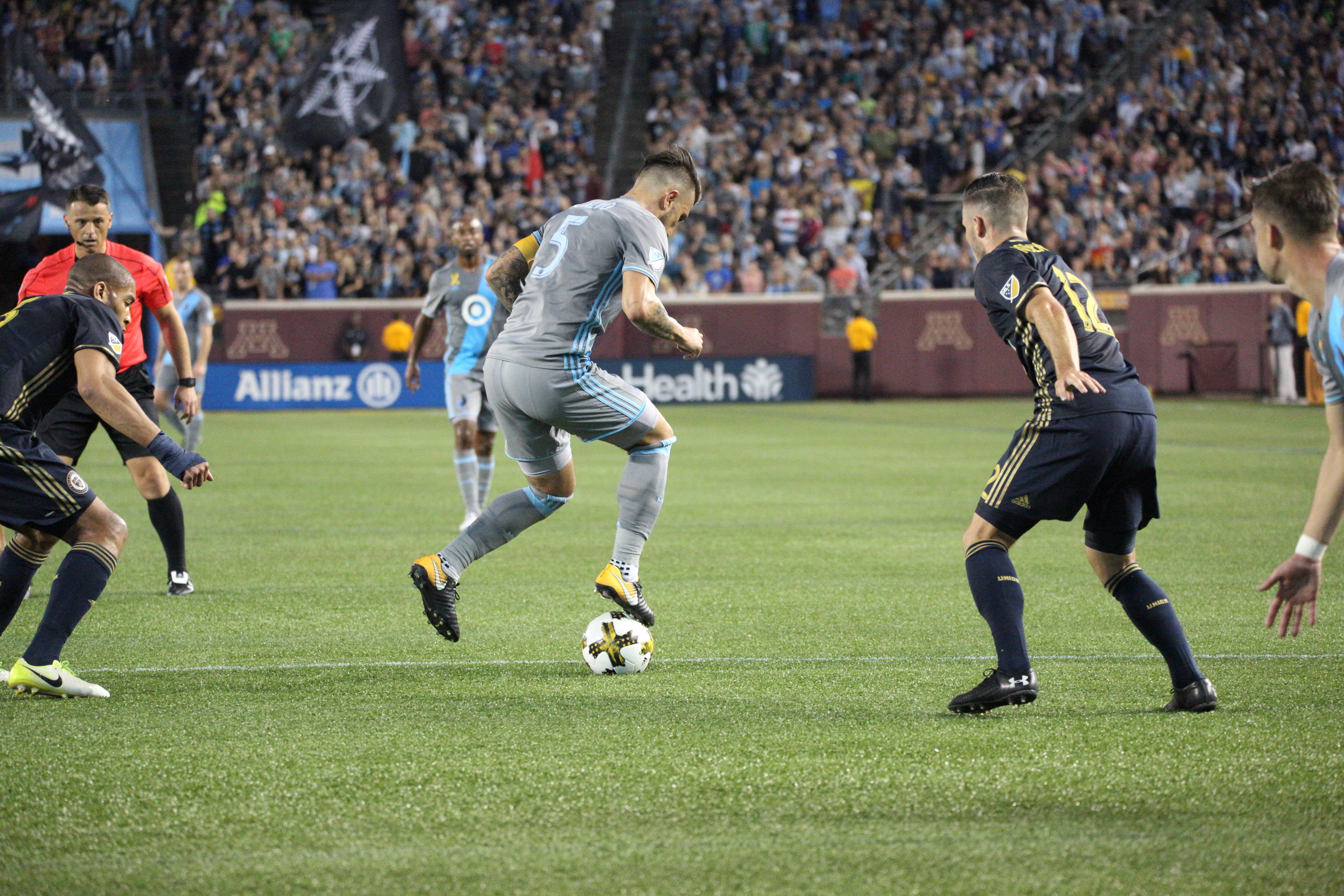 Philadelphia Union - Minnesota UNITED - MLS - Soccer